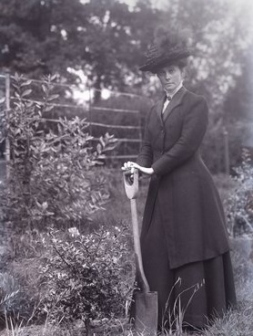 Alice Perkins. From a unique collection of glass plate negatives taken by Col. Linley Blathwayt of Eagle House, Batheaston, home of refuge for suffragettes between 1908 and 1912. He died in 1919. The pictures are made available in larger formats by . - who claim copyright of these 100 year old plus published pictures